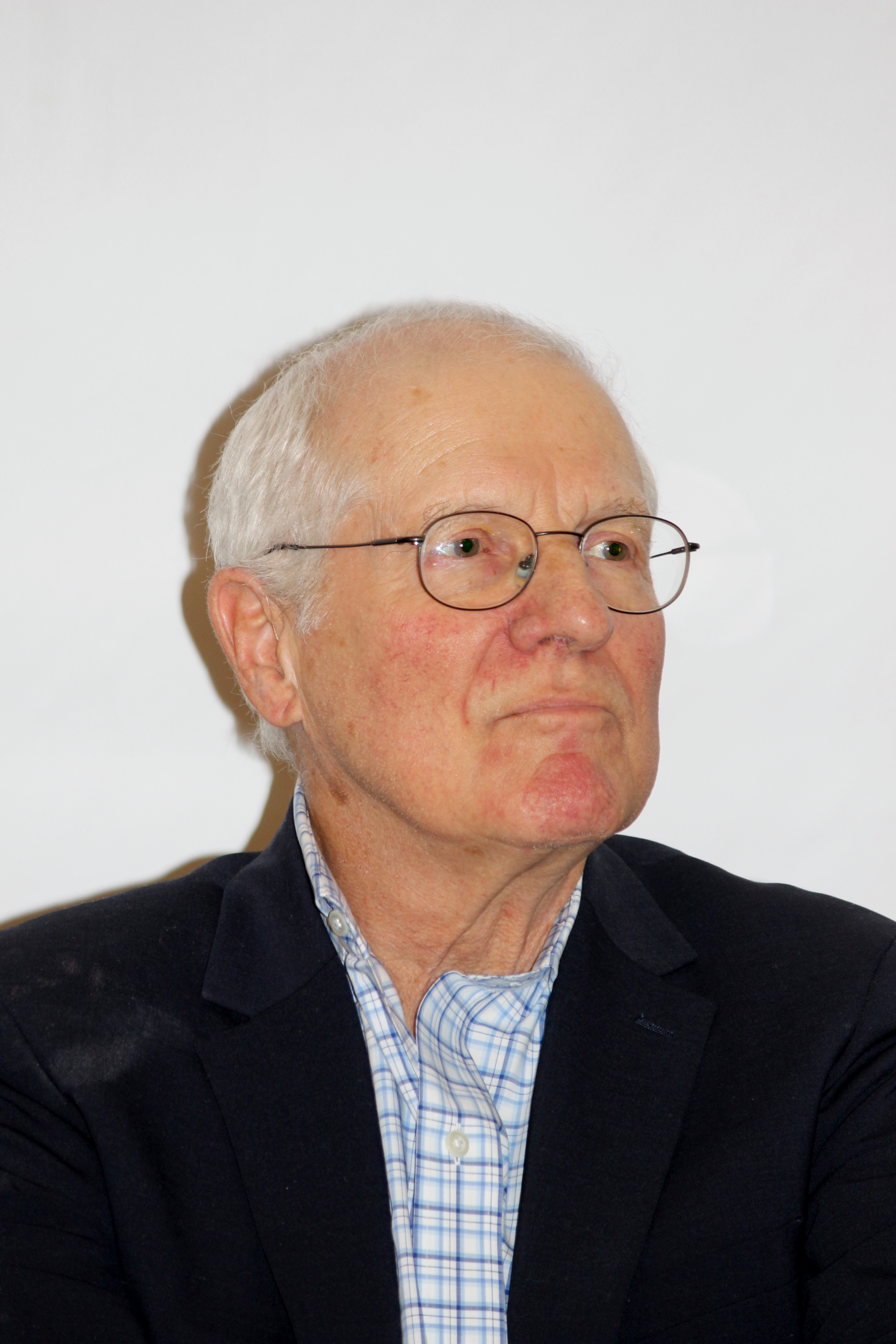 American political scientist William Taubman during the presentation of the Russian translation of his book Gorbachev: His Life and Times at the 20 Moscow International Fair Non/fiction 2018